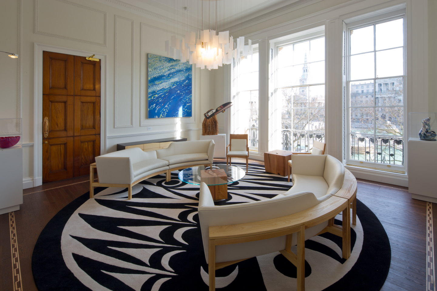 The British Columbia room on the first floor of Canada House